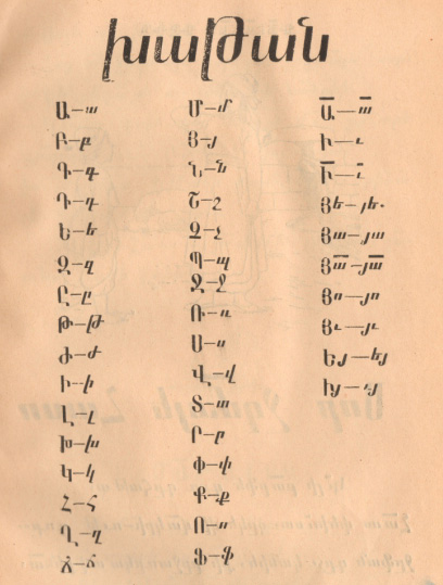 Armenian alphabet for Kurmanji language (USSR, 1921 version)